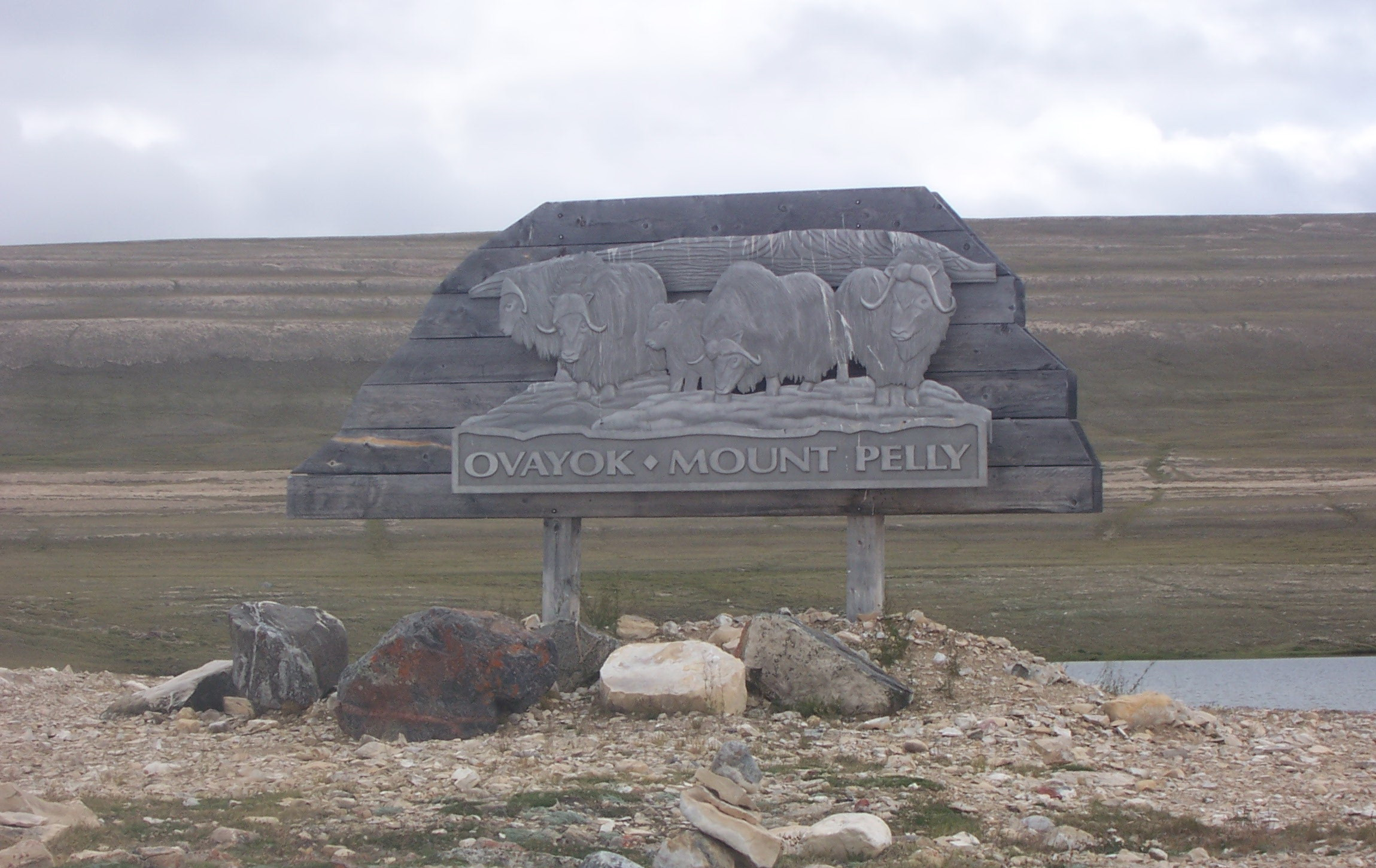 Sign at Ovayok Territorial Park